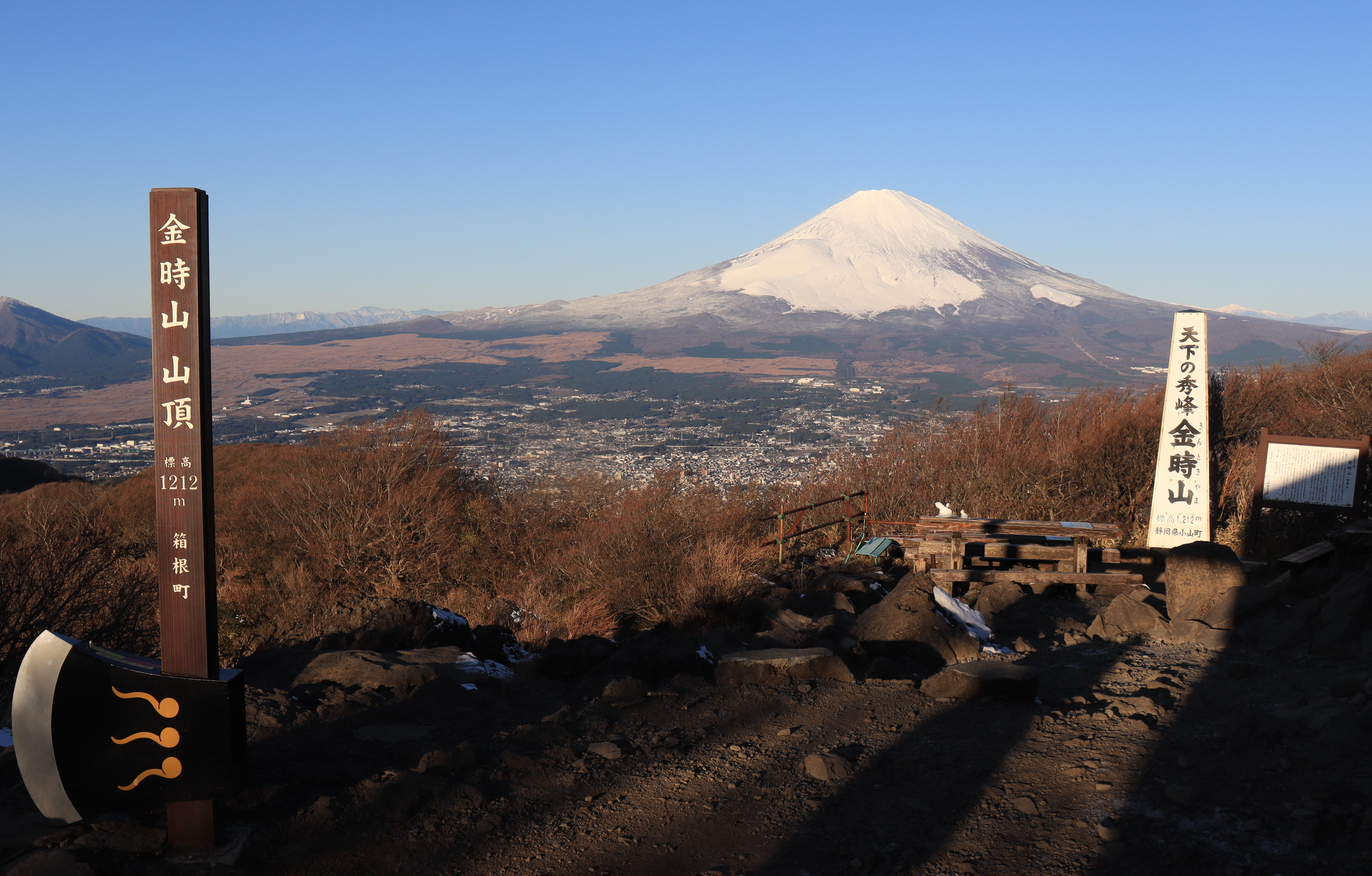 Mount Fuji seen from Mount Kintoki in Japan.